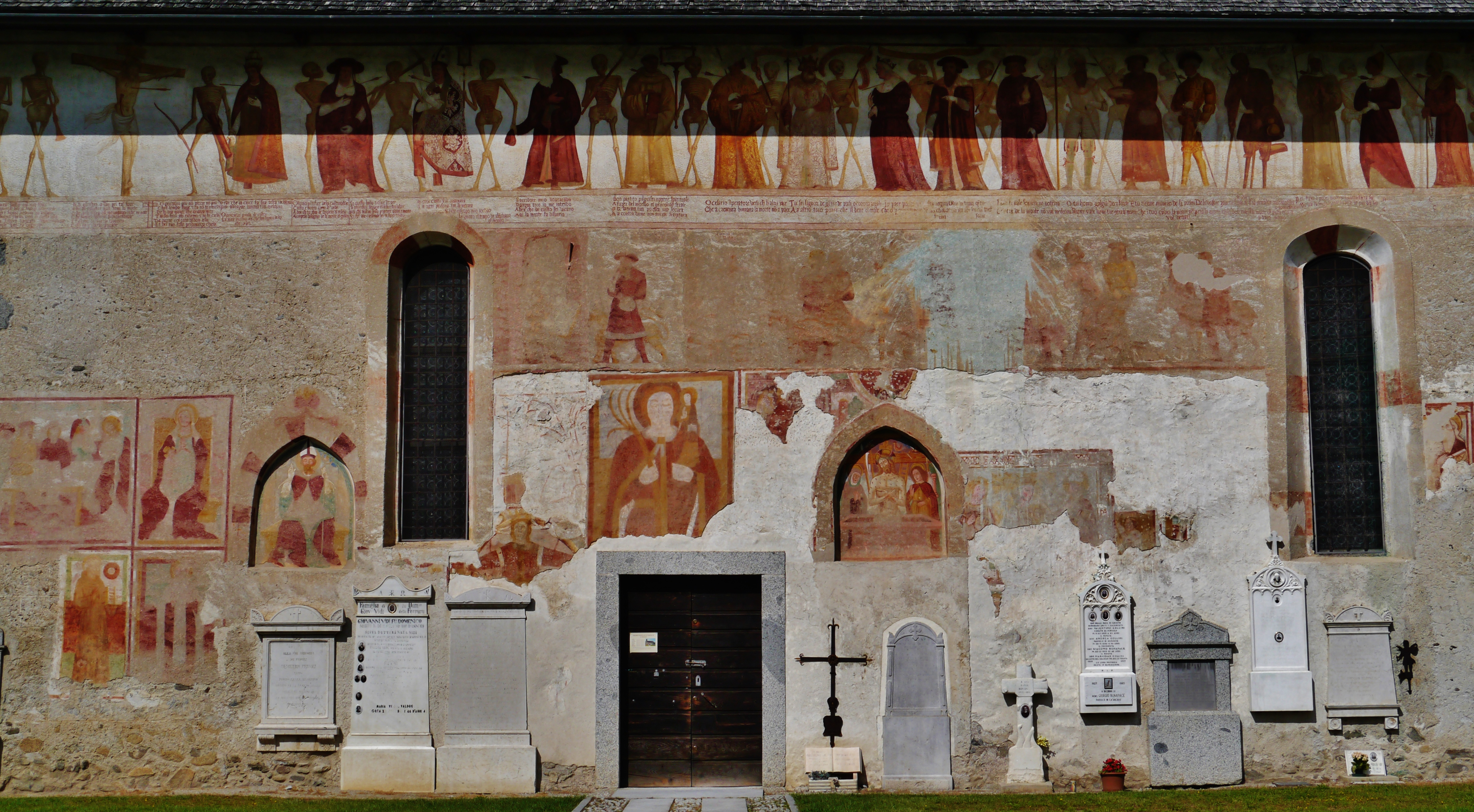 Church of San Vigilio, Pinzolo, Province of Trent (Trentino), Region of Trentino-Alto Adige/Südtirol, Italy